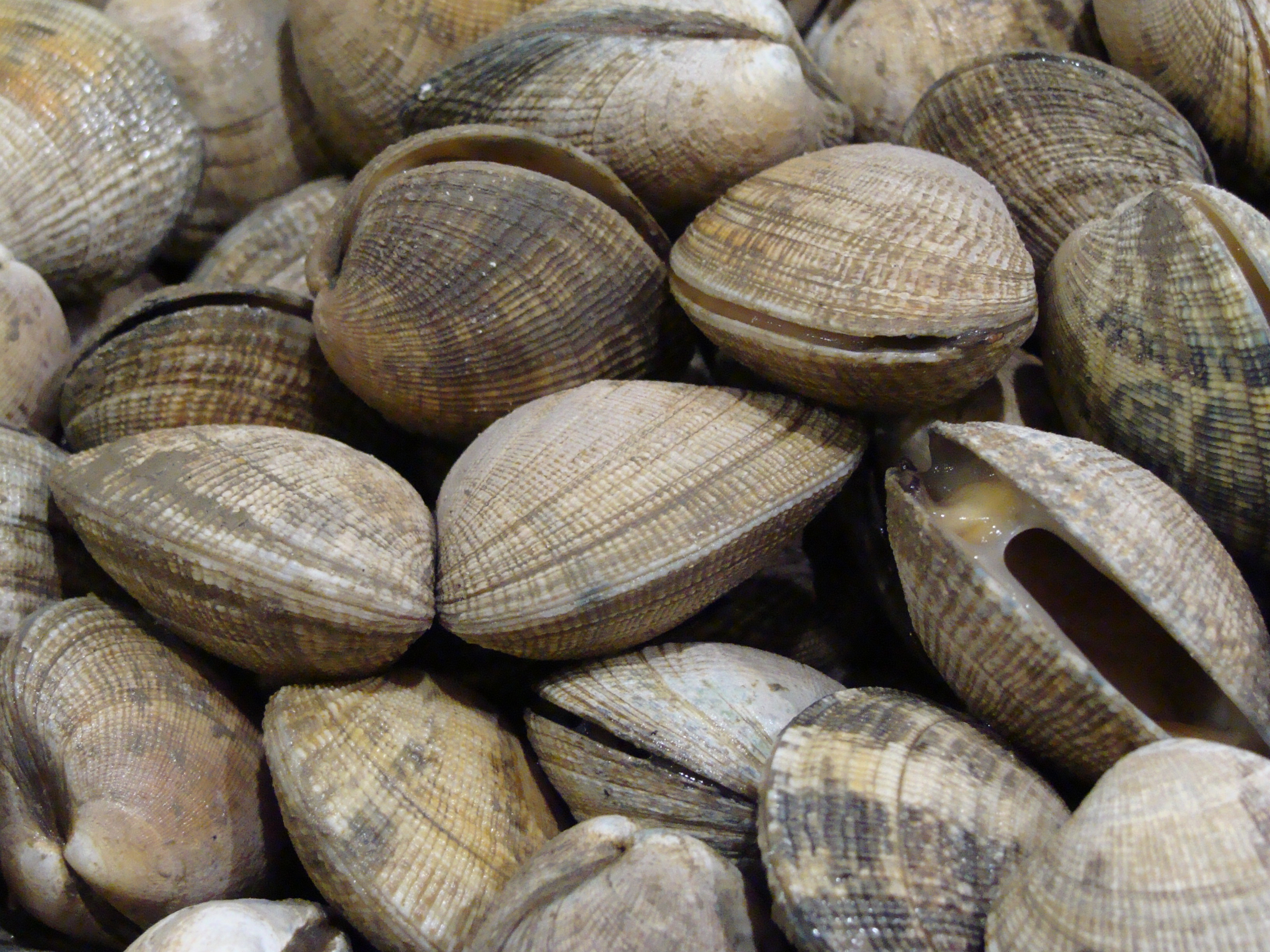 Venerids (alive)